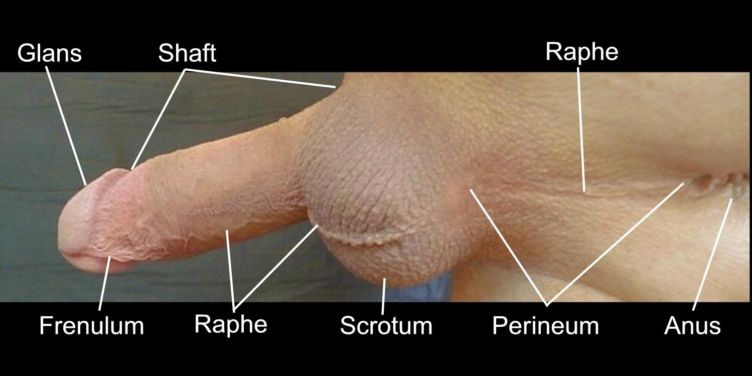 Erect, circumcised human penis, scrotum, perineum, and anus with labels indicting raphe on the penis, scrotum, and perineum.